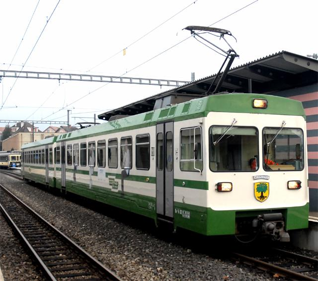 Chemin de fer Lausanne-Échallens-Bercher (LEB) Be 4/8 32 on 7 February 2007 at Échallens